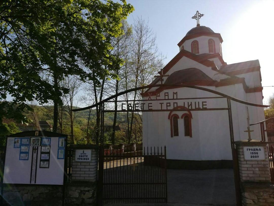 Church of Holy Trinity in Lovci village Srpski (latinica): Crkva svete Trojice u selu Lovci